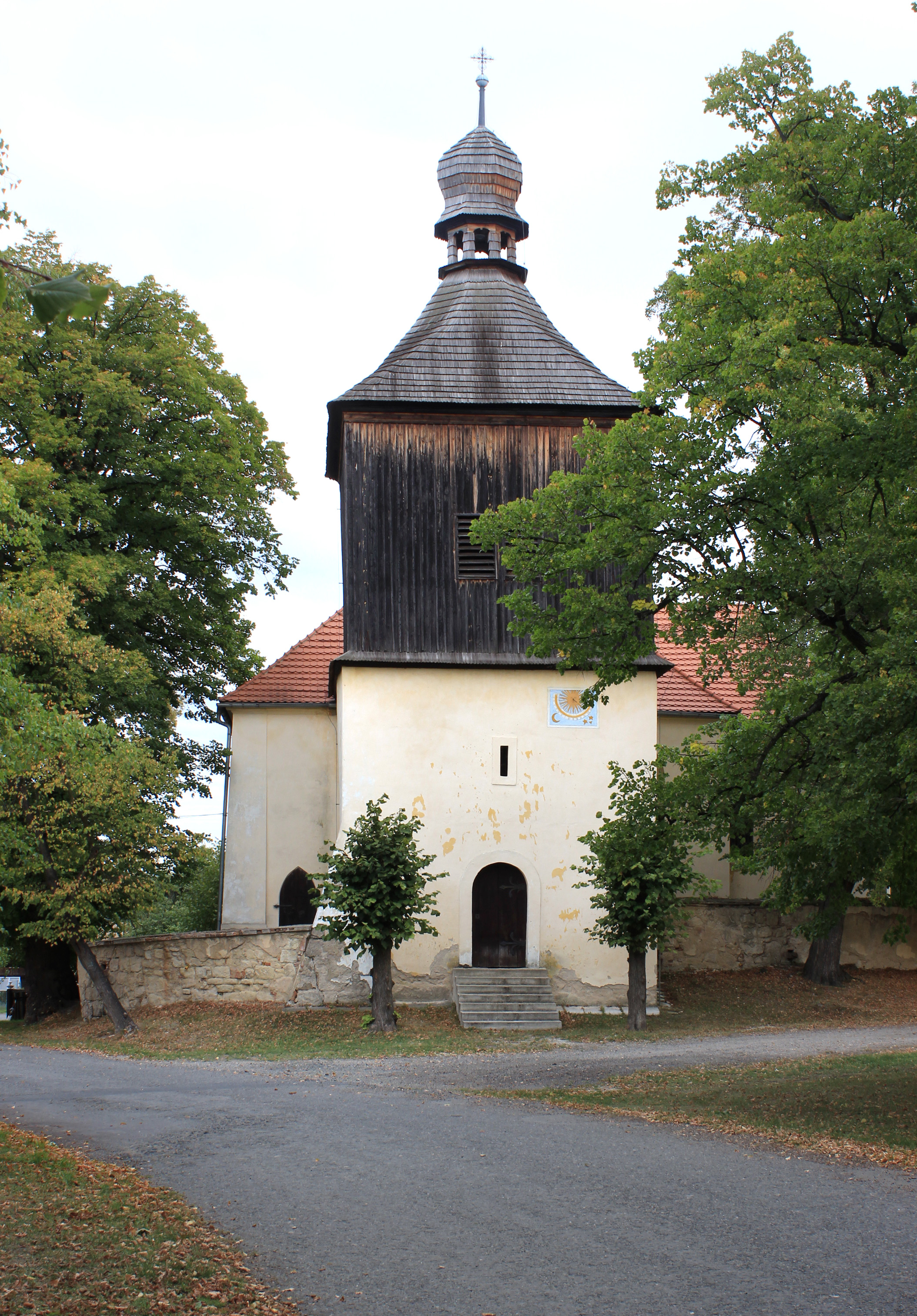 Church in Radouň, part of Mělnické Vtelno, Czech Republic.